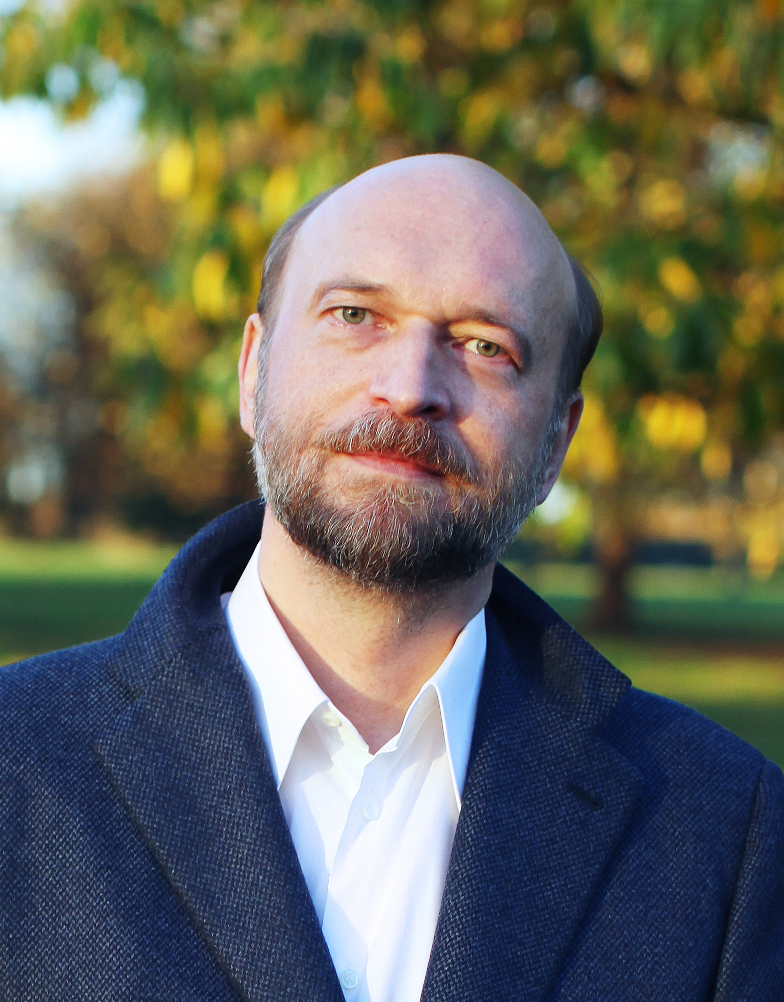 Сергей Викторович Пугачев